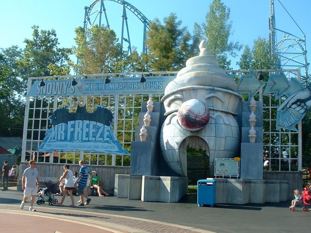 The Chill coaster